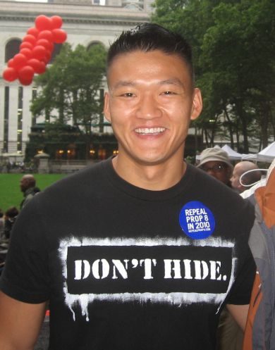 Gay rights activist and Iraq War veteran Dan Choi, at the 2009 Pride Rally in Bryant Park, NYC 中文（中国大陆）: 同志权利活动家、伊拉克战争老兵丹·崔，2009年在纽约布莱恩特公园男女同志骄傲月活动中。